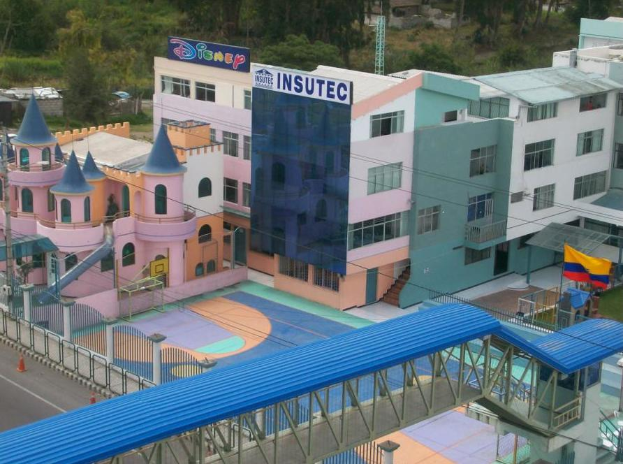 Uniandes Ambato